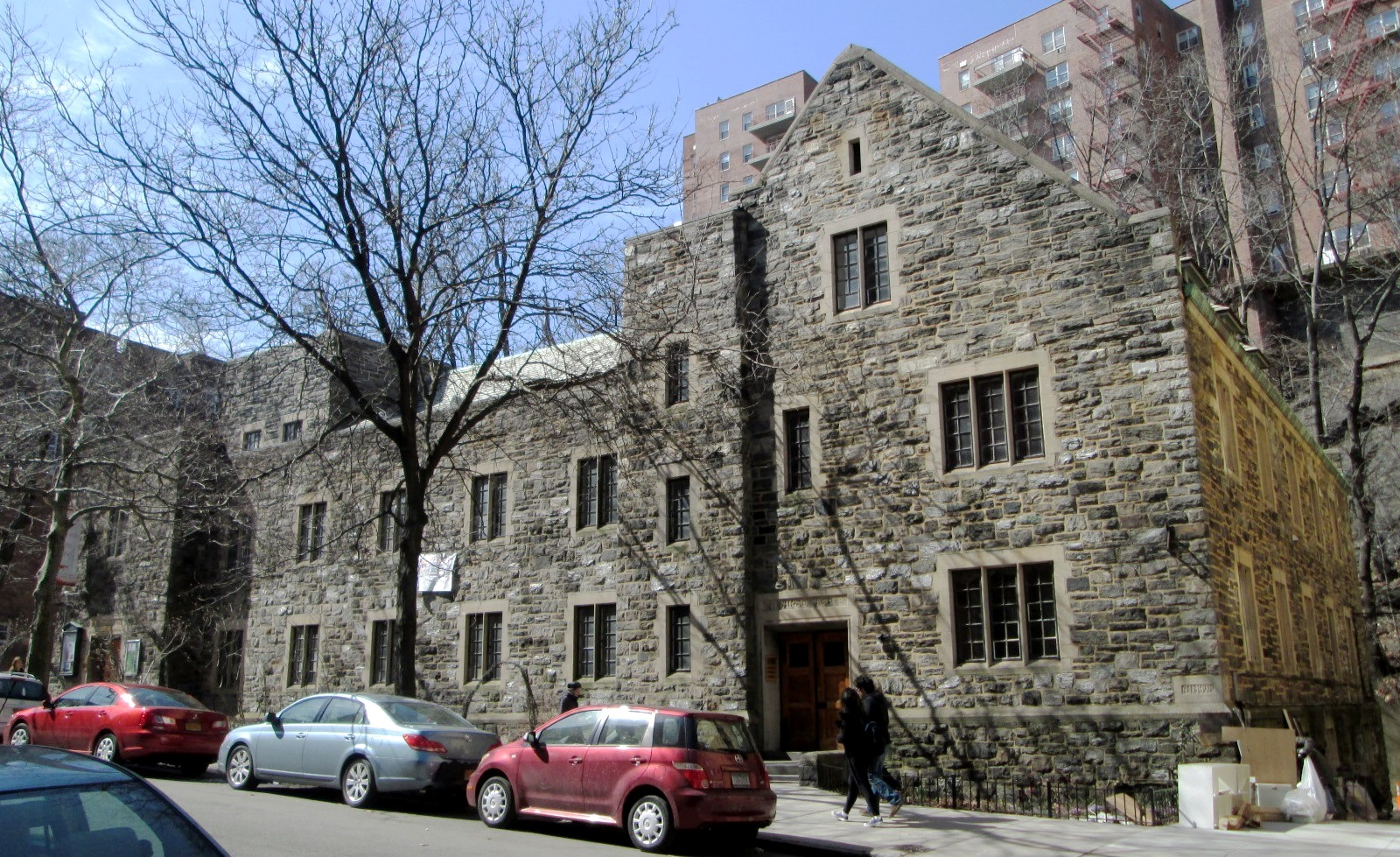 The Collegiate Gothic stone building at 178 Bennett Avenue between West 189th and 190th Streets, designed by Meyers, Murray & Phillip, was constructed in 1928 and was intended to be the Parish House and Parsonage for a much larger complex including a church and a hospital, which was never constructed due to the stock marker crash of 1929. Our Saviour's Atonement Church – which had been formed from the merger of two missionary offshoots of St. John's Evangelical Lutheran Church, the Evangelical Church of Atonement (founded 1896) and the Church of Our Saviour (founded 1898) – therefore converted the Reception Hall into a sanctuary and the stage into the chancel. In the 1970s, with membership falling, and being unable to keep up the building, it was sold to the synod for $10 and was converted into the Cornerstone Center, which provided arts and social services to the neighborhood. By 1986 the congregation was able to buy back the building from the synod (for the same $10 they have sold it for). For some time, the building was also used by Beth Am, the People's Temple, which moved in 2002 to the nearby Hebrew Tabernacle. (Sources: From Abyssinian to Zion (2004), Church website and Hebrew Tabernacle website)